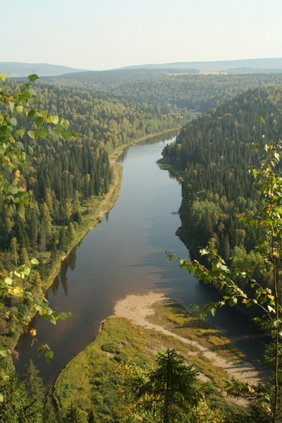 view of the Usva river from Usvinskie stolby